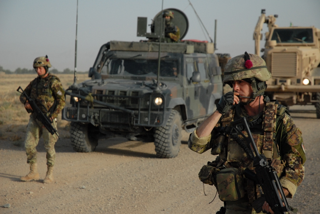 Herat, Afghanistan (July 19) – This morning, the 32nd Engineer Alpine Regiment, a unit specialized in explosive disposal belonging to Task Force Centre was warned by the Afghan police about a possible Improvised Explosive Device (IED) found under a Ring Road's bridge, 6 km east from Shindand base. The unit arrived on the spot reinforced by Pinerolo 3rd Regiment, that have cordoned the area. The container was in the indicated position and was confirmed as an IED. After assessing the difficulties to examinate and disable the bomb, specialists have opted for a distant blast, using elite shooters who arrived from the base. The explosion did not cause any damage to persons or properties, and did not harm the bridge structure whatsoever.